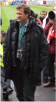 French rugby union coach, and former player, Fabien Galthié